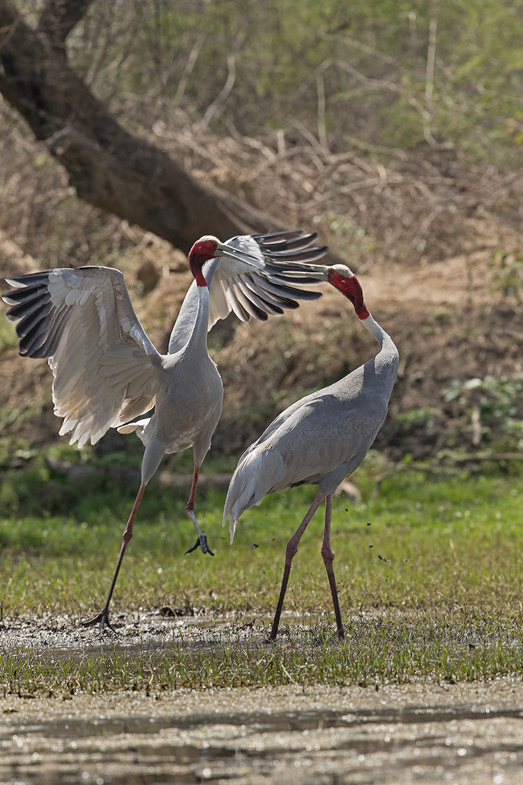 Courtship dance